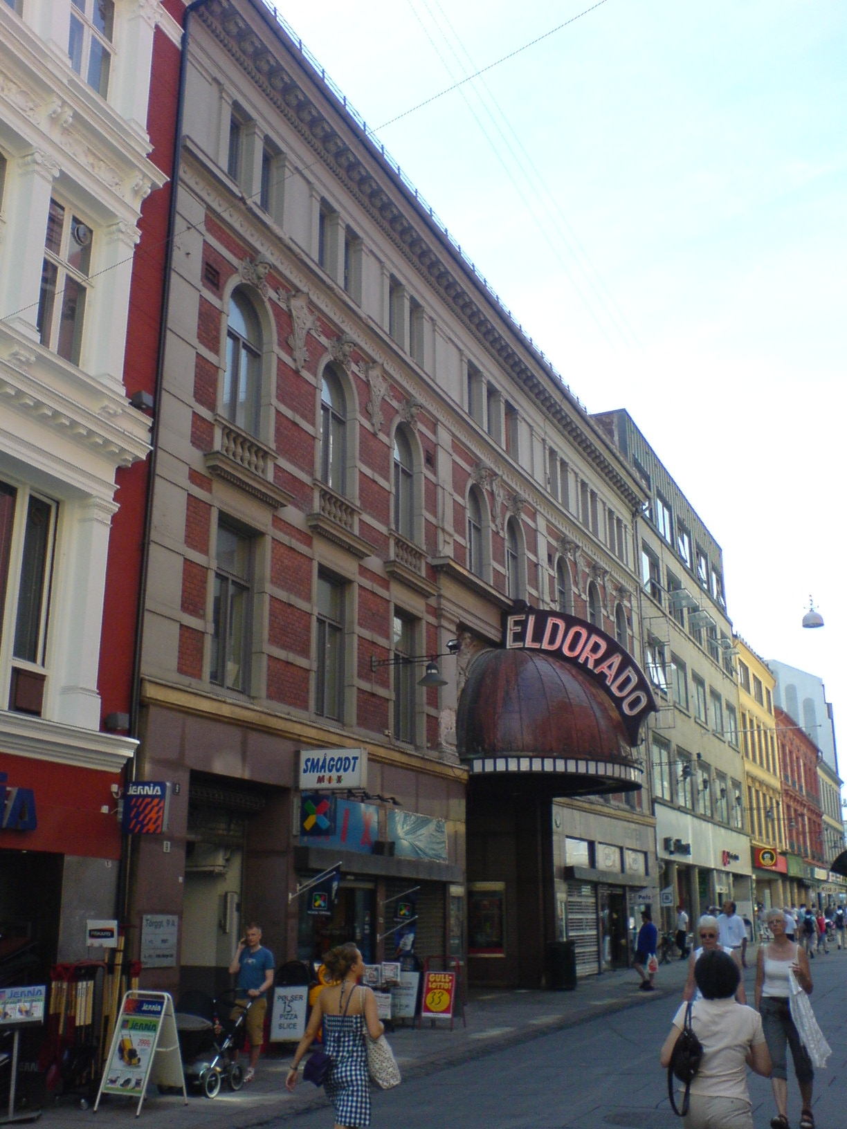 The movie theatre Eldorado kino i Oslo seen from the right